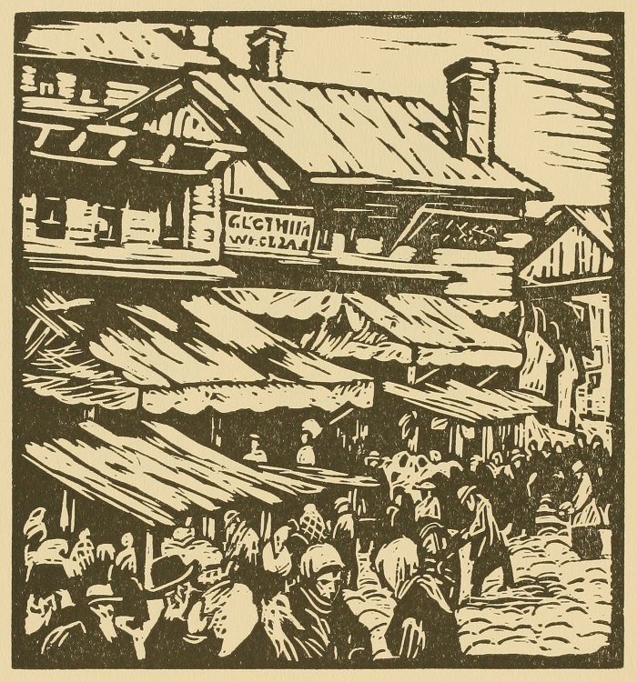 From Land to Land - Making business (hustle, bustle). Chicago's Maxwell Street. Used as an illustration in Louis Wirth's The Ghetto (Chicago: University of Chicago Press, 1928).[1]